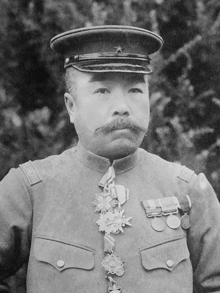 Gen. S. Kusunose ca. 1913 Aug. 8 (date created or published later by Bain) 1 negative : glass ; 5 x 7 in. or smaller. Notes: Title from unverified data provided by the Bain News Service on the negatives or caption cards. Forms part of: George Grantham Bain Collection (Library of Congress). Format: Glass negatives. Repository: Library of Congress, Prints and Photographs Division, Washington, D.C. 20540 USA, General information about the Bain Collection is available at Persistent URL: Call Number: LC-B2- 2798-3